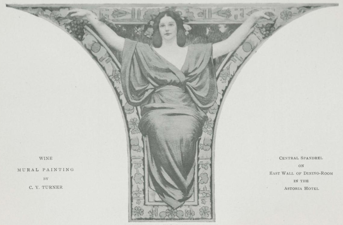 "WINE, mural painting by C. Y. Turner / Central Spandrel on east wall of Dining-Room in the Astoria Hotel."